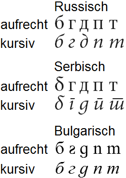 An overview of special Cyrillic letters used in Macedonian and Serbian, compared with the same letters in standard Cyrillic. The Cyrillic characters are written with Adobe Minion Pro, an Open Type font. The labels are in German.